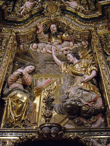 Girona Cathedral